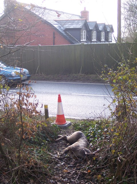 Dead deer beside the A21 Hastings Road This 'road accident' has been 'kindly' dumped on the footpath that leads from the road to Hayden Wood and onto Cuckoo Lane.